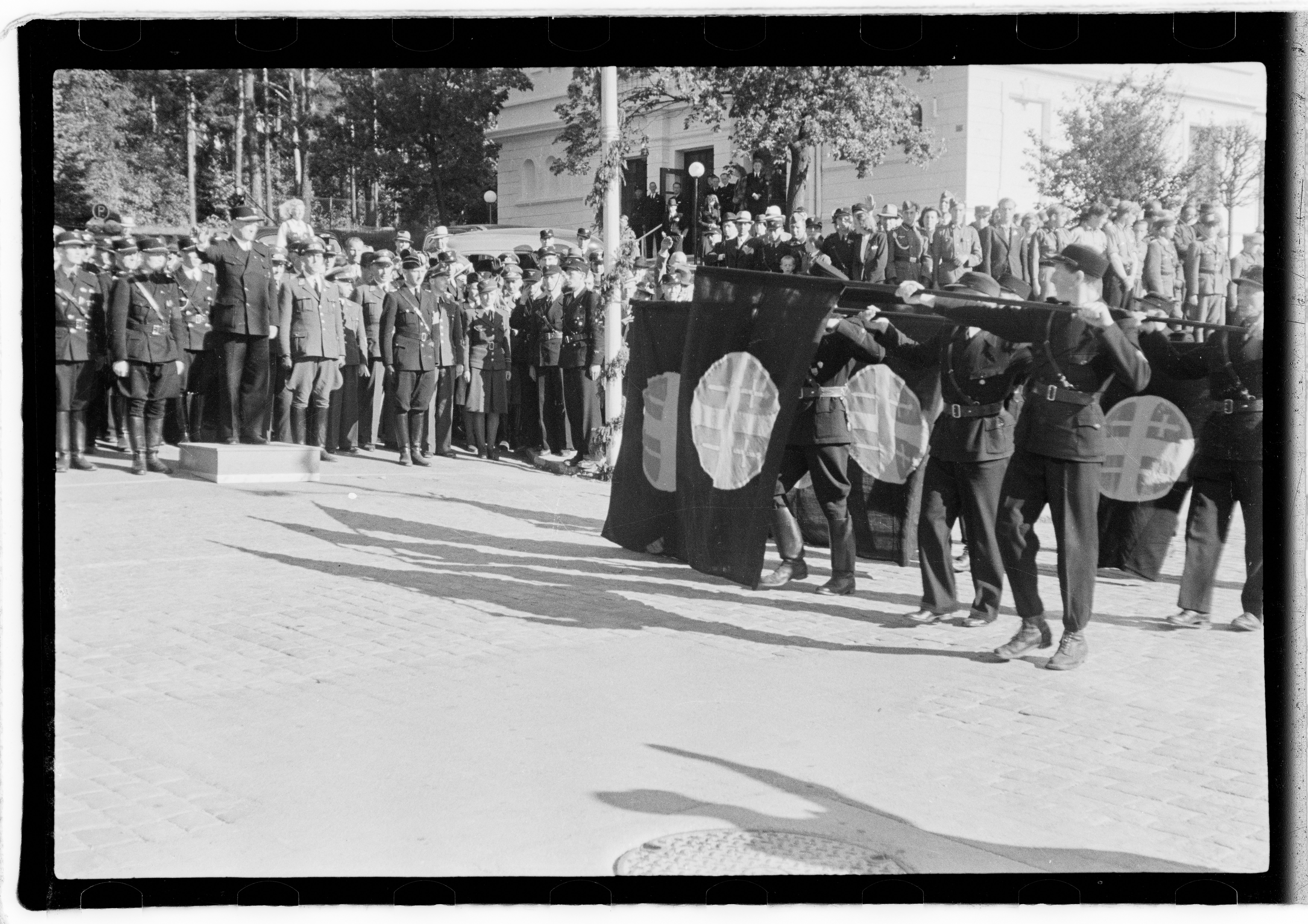 Photo from "Borgartinget", a propaganda rally of Nasjonal Samling (NS), Quisling's Norwegian Nazi party before and during World War II, held in Sarpsborg in German occupied Norway on June 20-21, 1942, with political speeches, the Hirden, uniformed party members organized in paramilitary troops, parading through the town, etc.